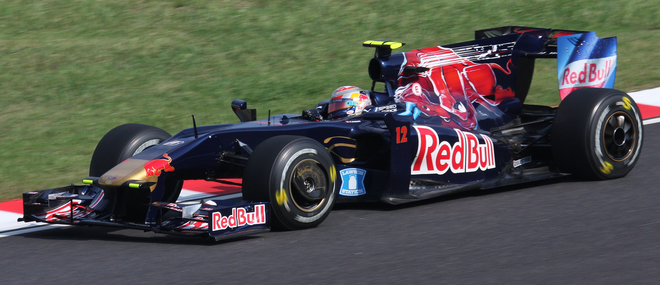 Formula One 2009 Rd.15 Japanese GP: Sébastien Buemi (Toro Rosso) running in Saturday 1st Qualify session.